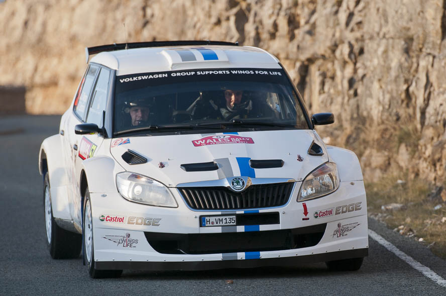 Wales Rally GB 2011 GBR,Great Orme,Großbritannien,Llandudno,Llandudno Community,Motorsport,Rally,Rallye,Sepp Wiegand,Skoda Fabia S2000,Timo Gottschalk,Volkswagen Motorsport,Wales,Wales Rally GB